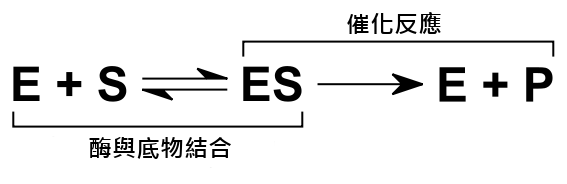 Simple enzyme mechanism, showing the formation of the enzyme-substrate complex and the chemical step.